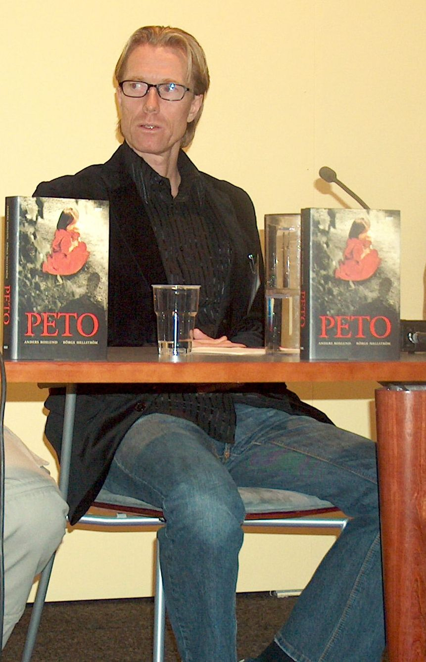 Anders Roslund, Swedish writer, at the Helsinki Book Fair in 2004